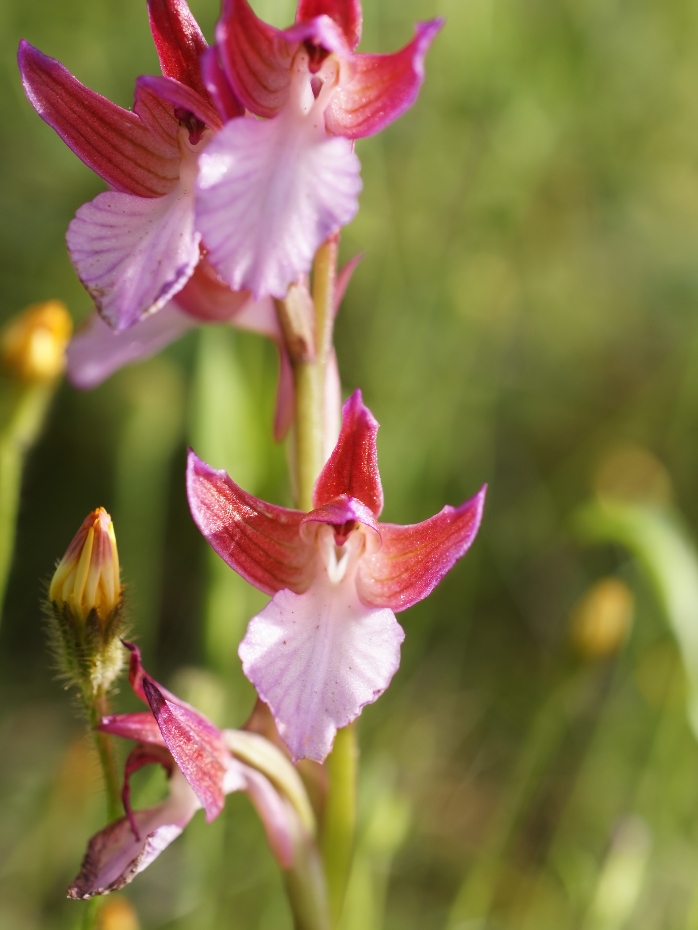 Butterfly Orchid. Approximate co-ordinates: plant located within 2 km from Torre Grande, Sardinia, Italy